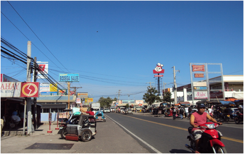 Downtown Iba